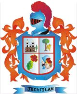 Coat of Juchitlan, Jalisco Designed by Jose Maria Covarrubias